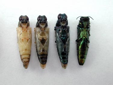 Ventral view of Emerald Ash Borers, from pupae to adult.